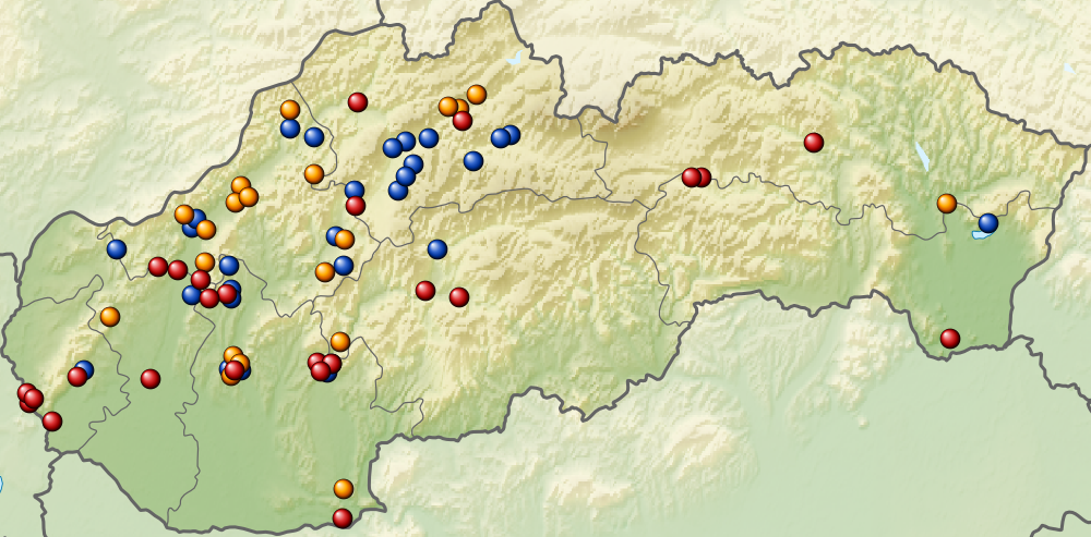 Red - proven fortified settlement Orange - scientifically indicated, very probable Blue - scientifically partly indicated, potential